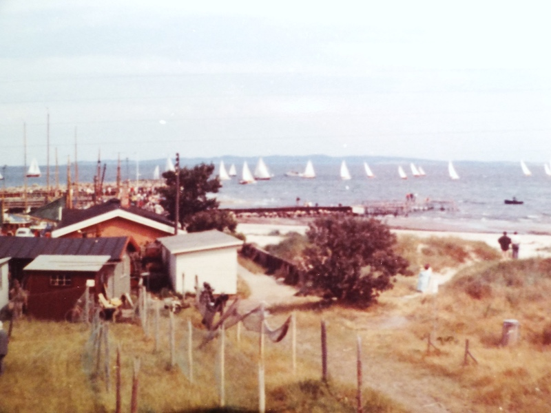 View from the studio of the Danish artist Astrid Tjalk in the mid 1970s